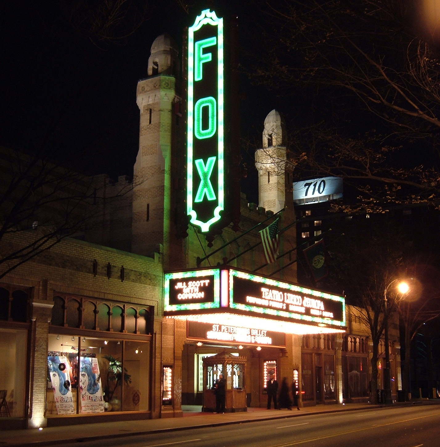 The Fox Theater on a Saturday night (Atlanta, GA, USA)